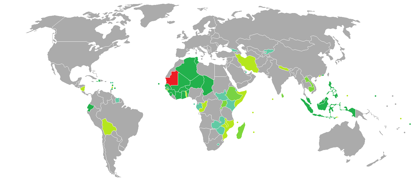 Visa requirements for Mauritanian citizens Mauritania Visa free access Visa on arrival eVisa Visa required